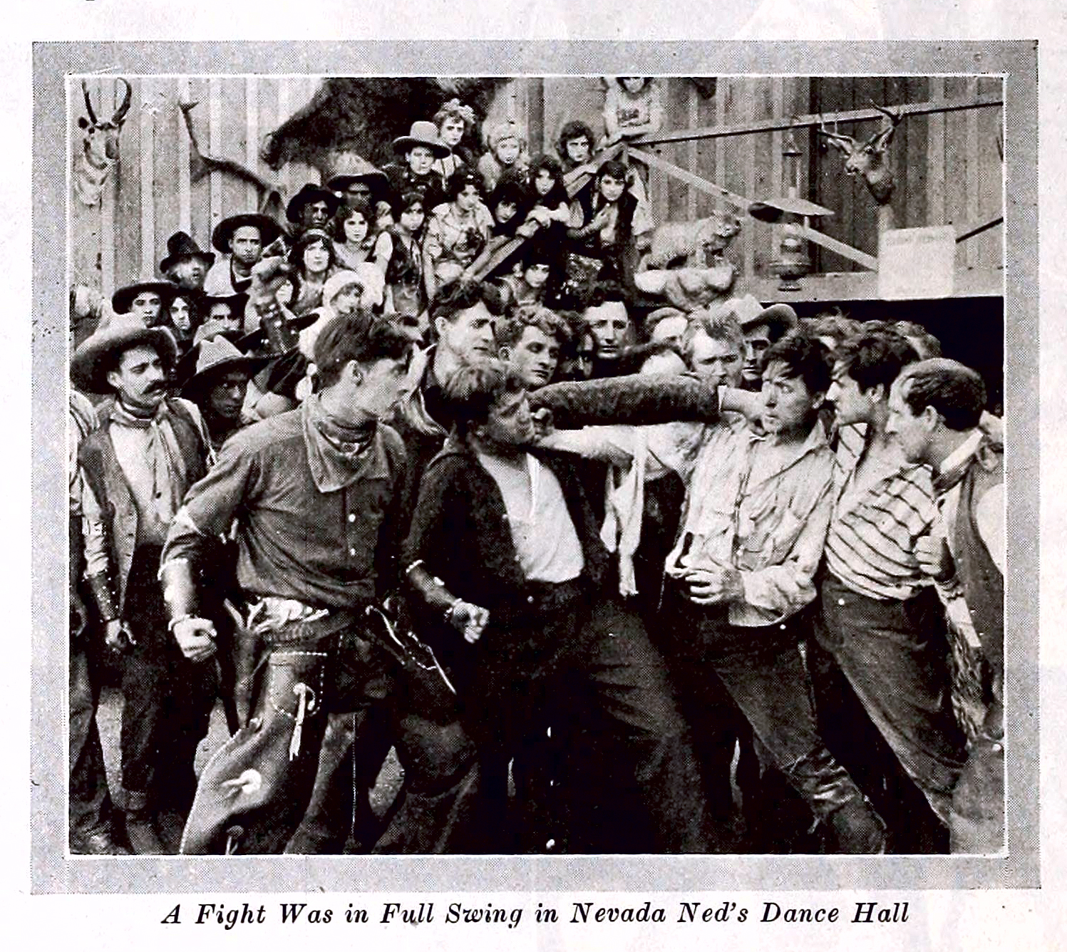 Still from the American western film On the Night Stage (1915) with William S. Hart at left with clenched fists, on page 16 of the April 3, 1915 Reel Life.